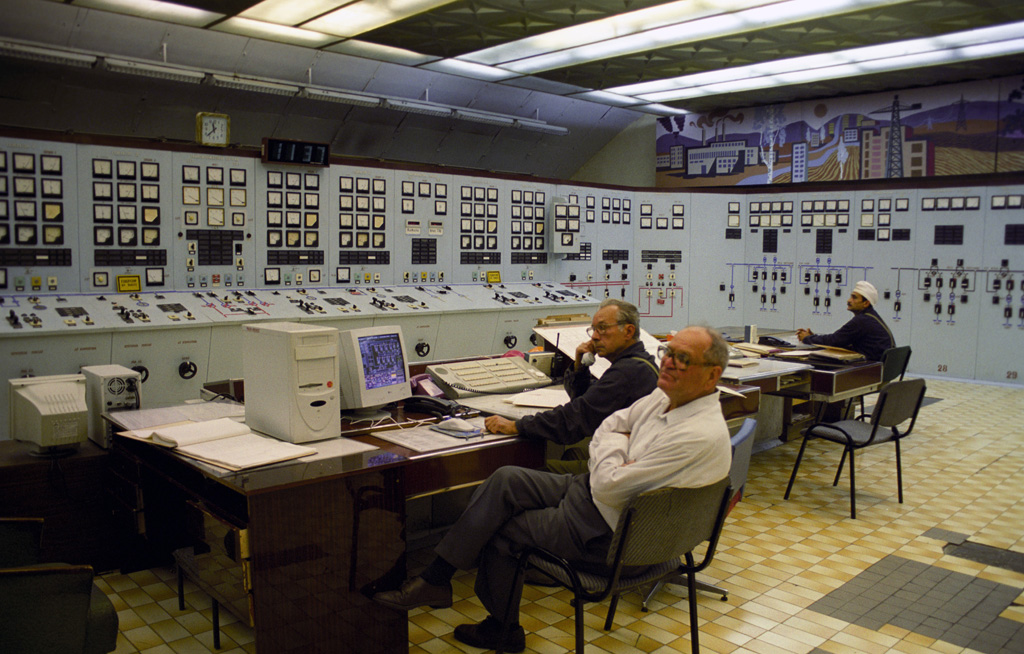 “Main switchboard of underground nuclear power plant”. The main switchboard of the underground nuclear power plant at the mining chemical plant in Zheleznogorsk.